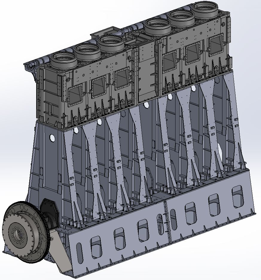 HOTLO nr8599 reconstructie in Solidworks, fundatie, kolommen en cilinderkop